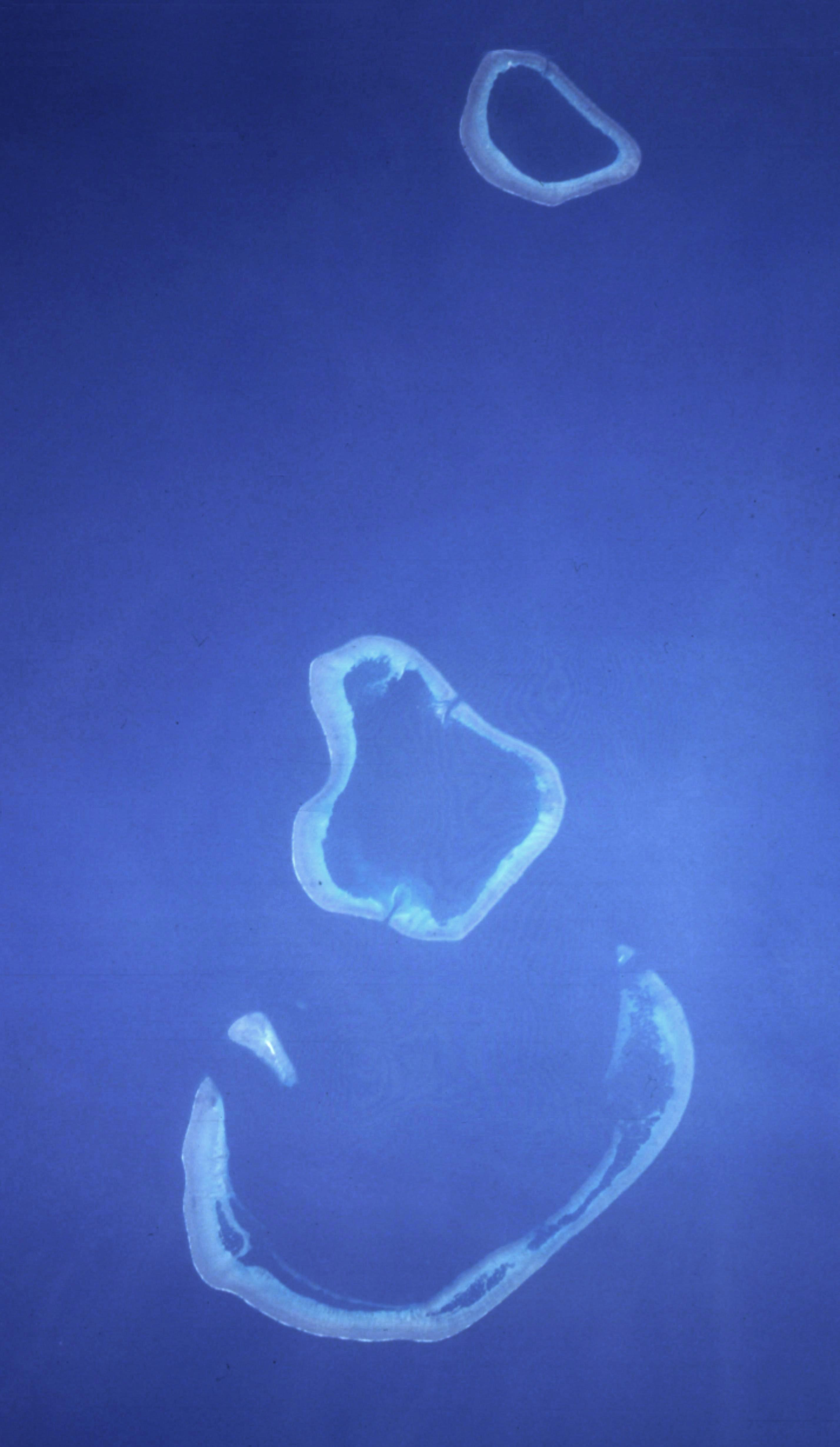 Scott and Seringapatam Reefs Scot Reefs